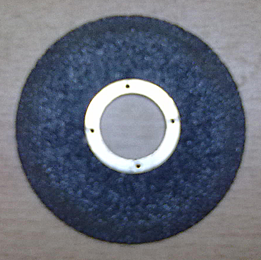 This disc is fitted in electric saw for cutting rods (especially iron rods)